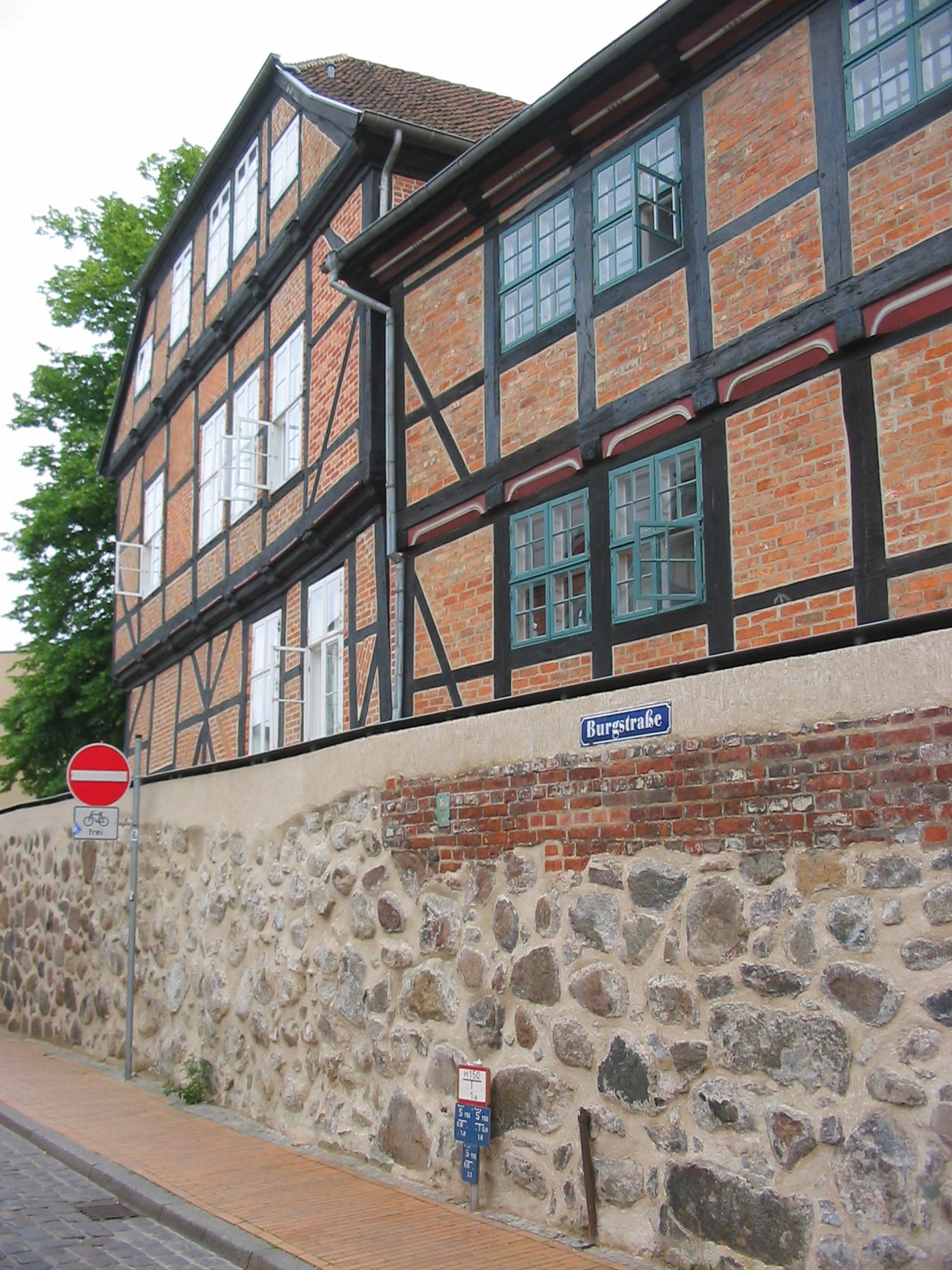 Rests of the city wall in Schwerin, Germany